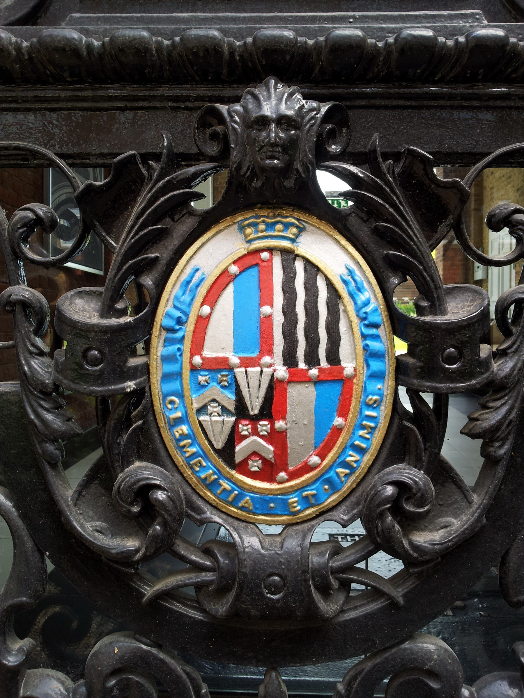 Detail of cast-iron gate of Shell Foundry Gate in Wellington Park, Royal Arsenal, Woolwich, South East London.